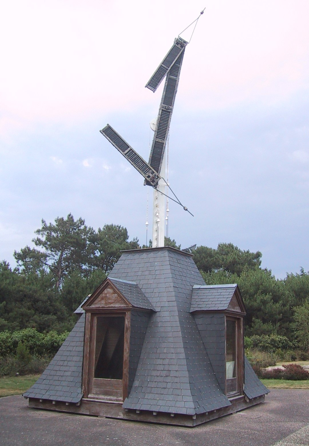 Chappe Telegraph (optical relay semaphore system) : copy of a "Milan" Chappe tower from 1809.